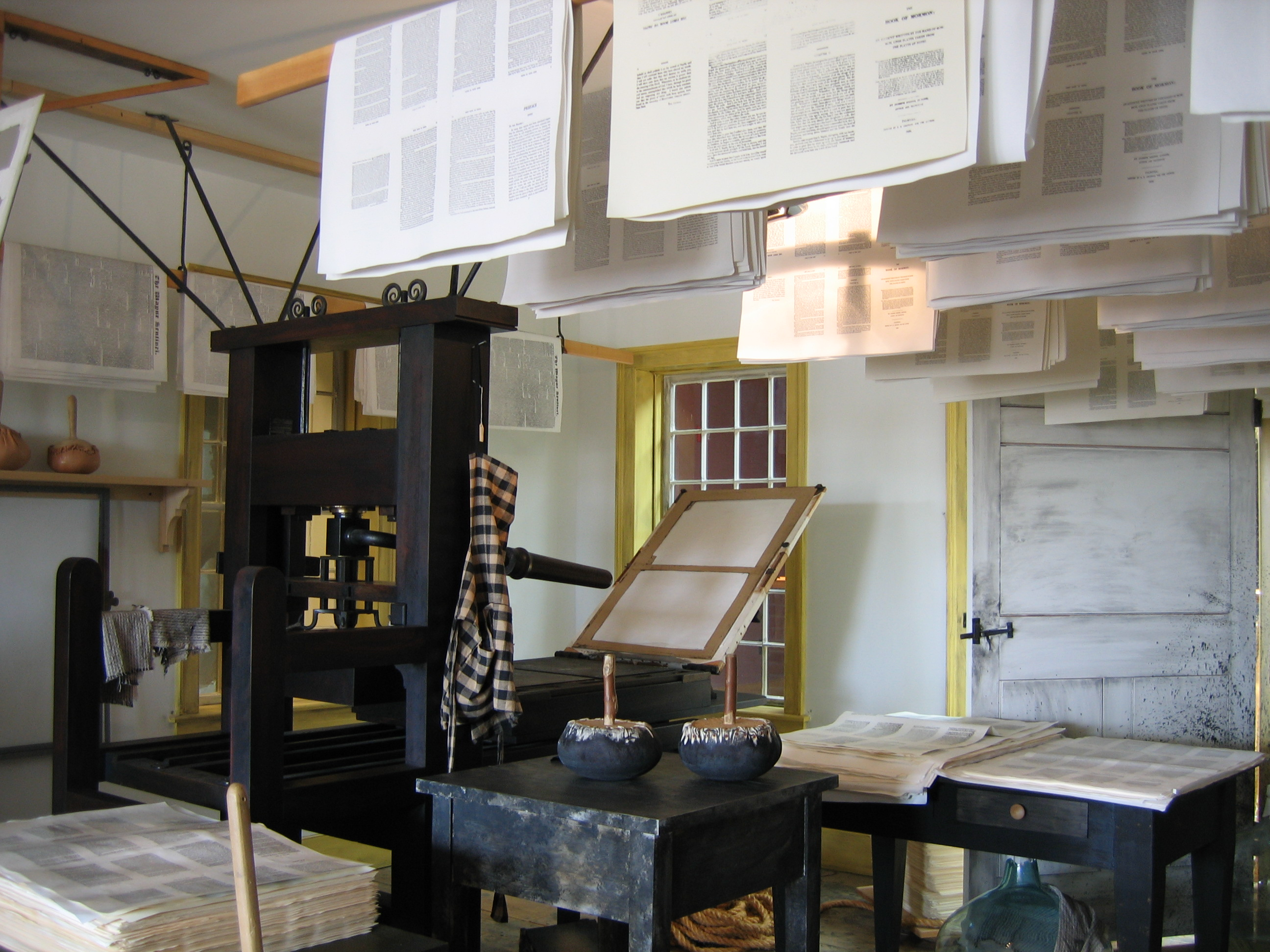 The printing press (used in letterpress printing), as seen on the third floor of the E.B. Grandin Building on Main Street in Palmyra, New York. The Book of Mormon was published for the very first time in this building during 1830. The building is currently owned and operated as a historic site by The Church of Jesus Christ of Latter-day Saints.